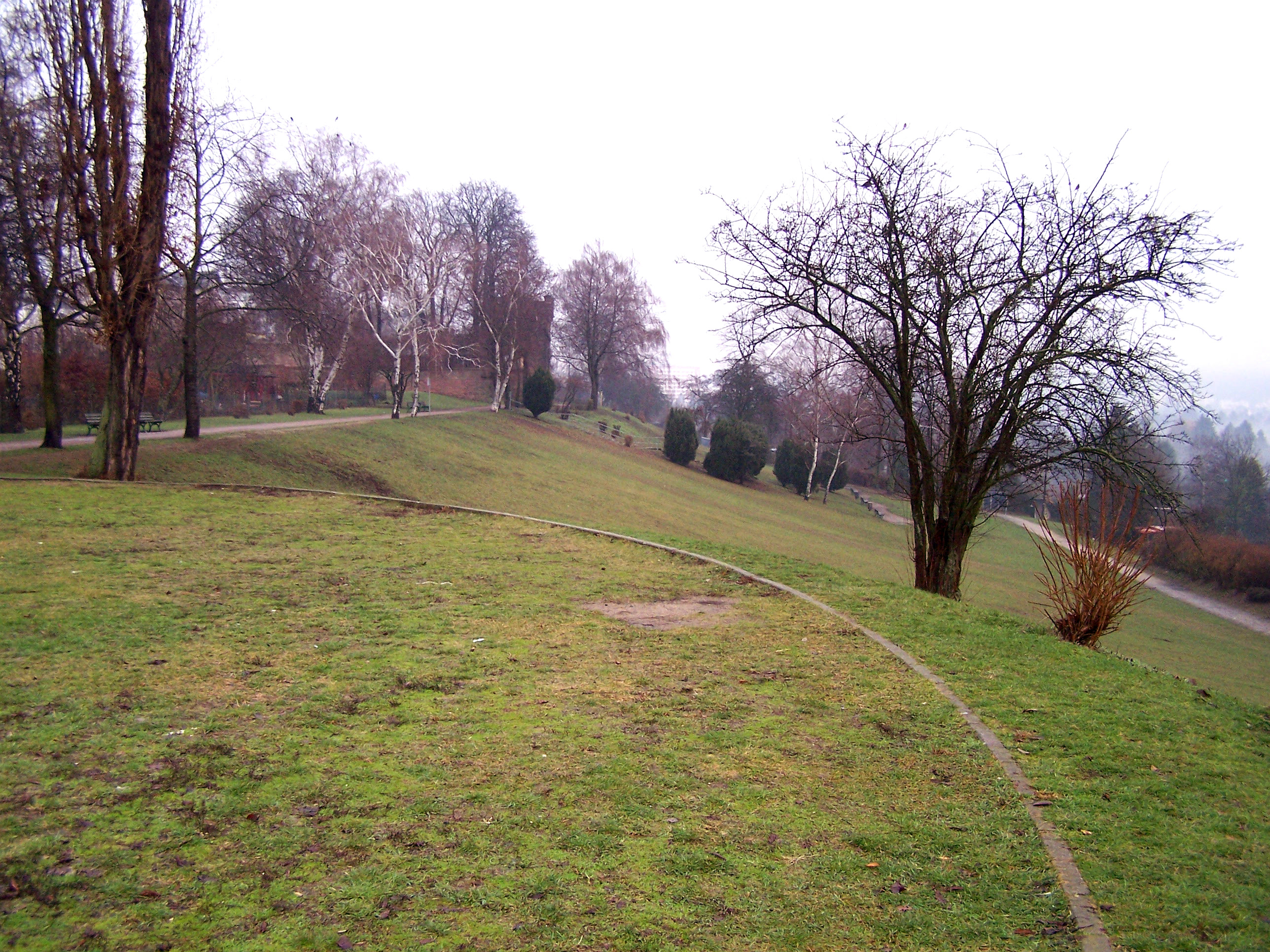 Bornheimer Hang in Frankfurt am Main-Bornheim, view to north, in December 2009